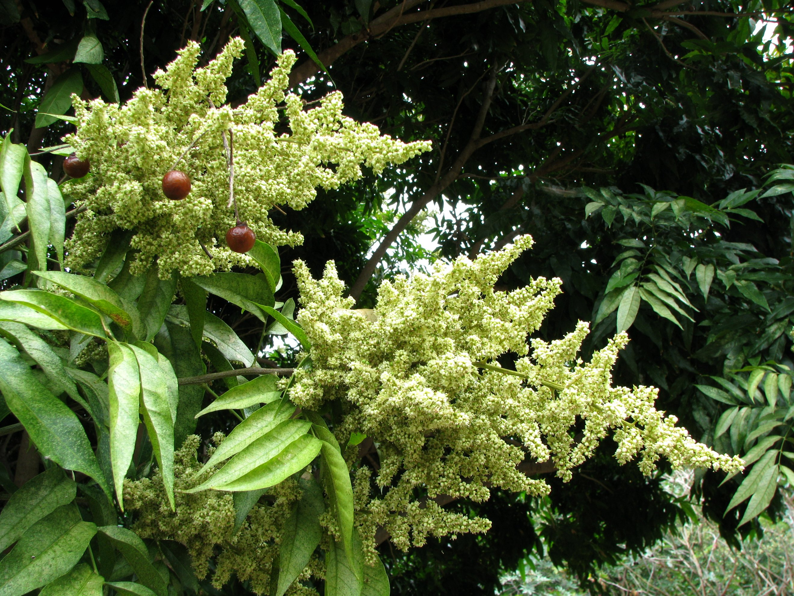 Mānele, Aʻe, or Soapberry Sapindaceae Indigenous to the Hawaiian Islands (Hawaiʻi Island only) Oʻahu (Cultivated) Apparently the pulp of the fruit was used by early Hawaiians as a soap for shampooing hair and washing clothes in the past. More at: NPH00008